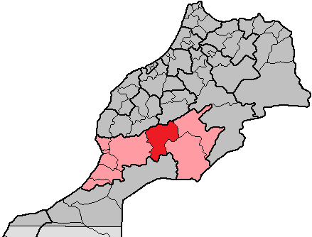 Location of the province Ouarzazate within the region Souss-Massa-Drâa, Morocco. In total, Morocco has 16 regions, subdivided into 62 provinces and 13 prefectures.